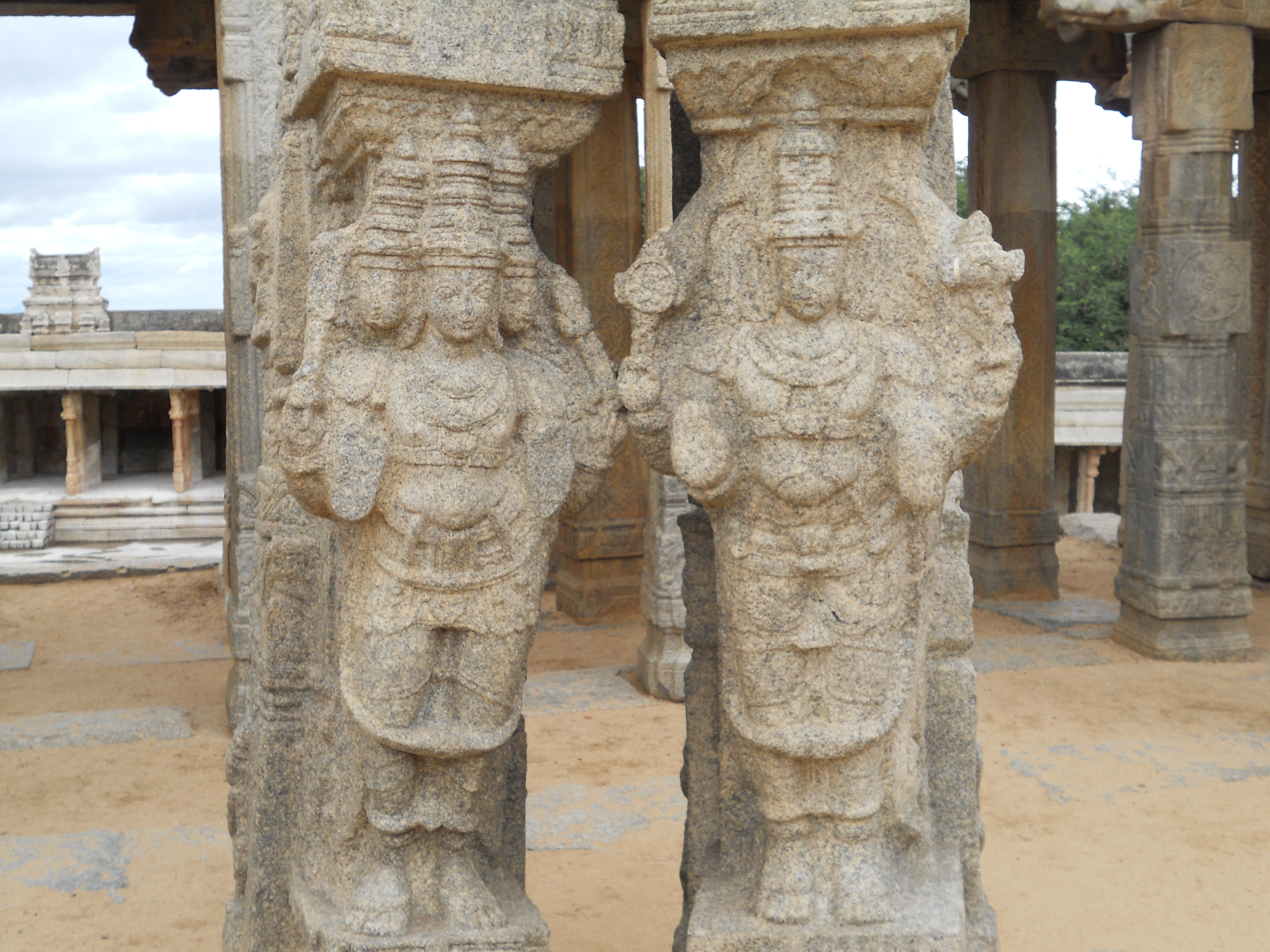 Virabhadra temple